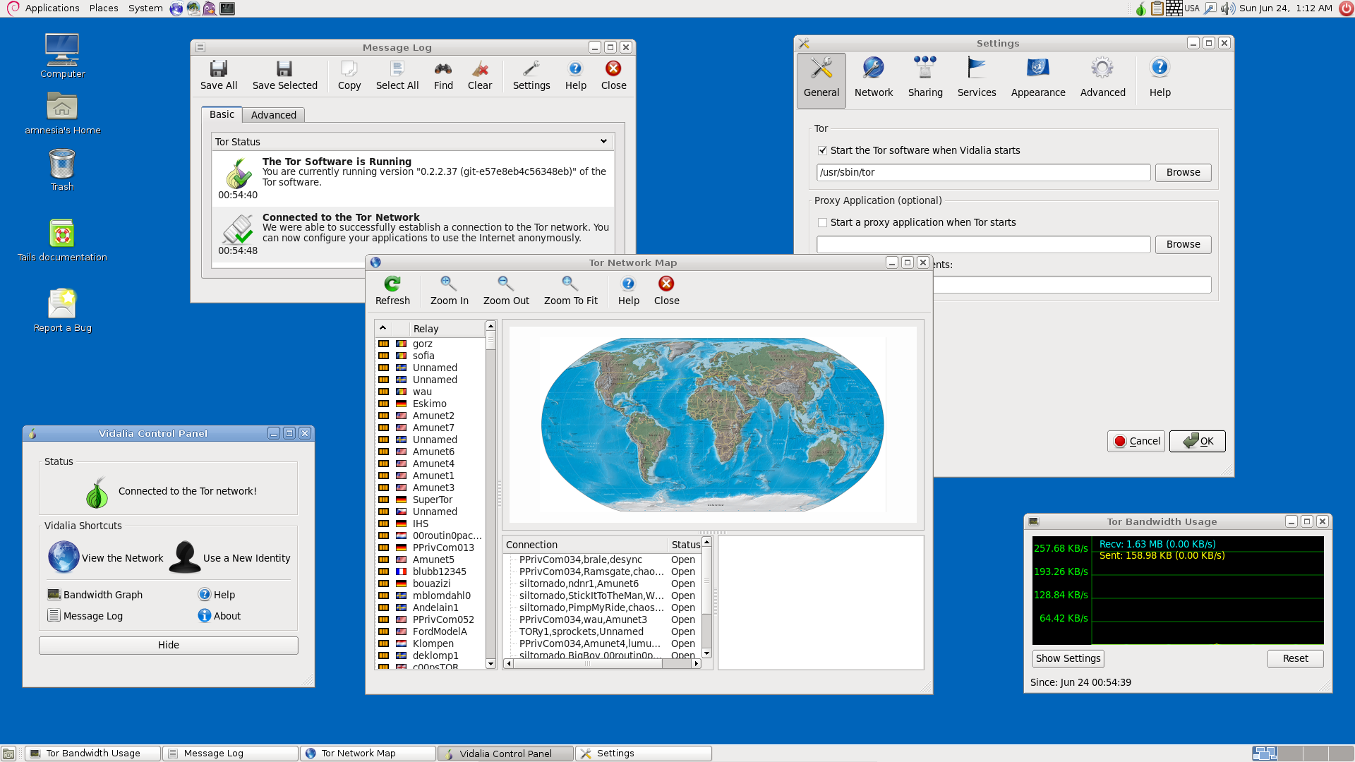 TAILS 0.12